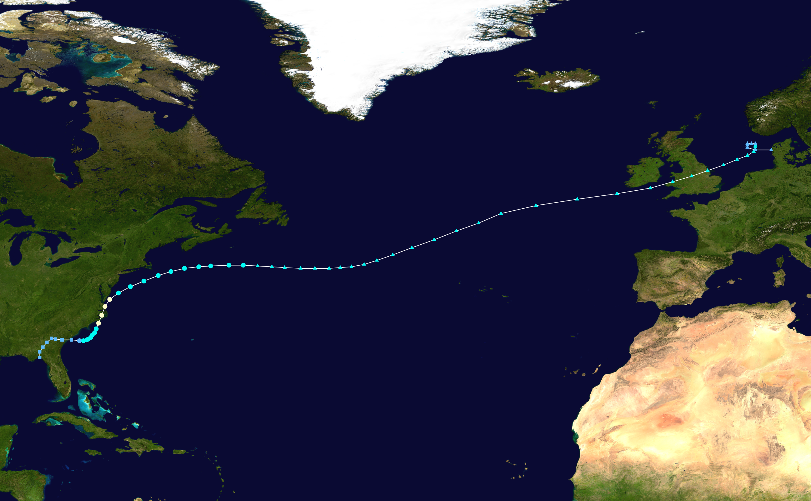 Hurricane Charley (1986) track. Uses the color scheme from the Saffir-Simpson Hurricane Scale.